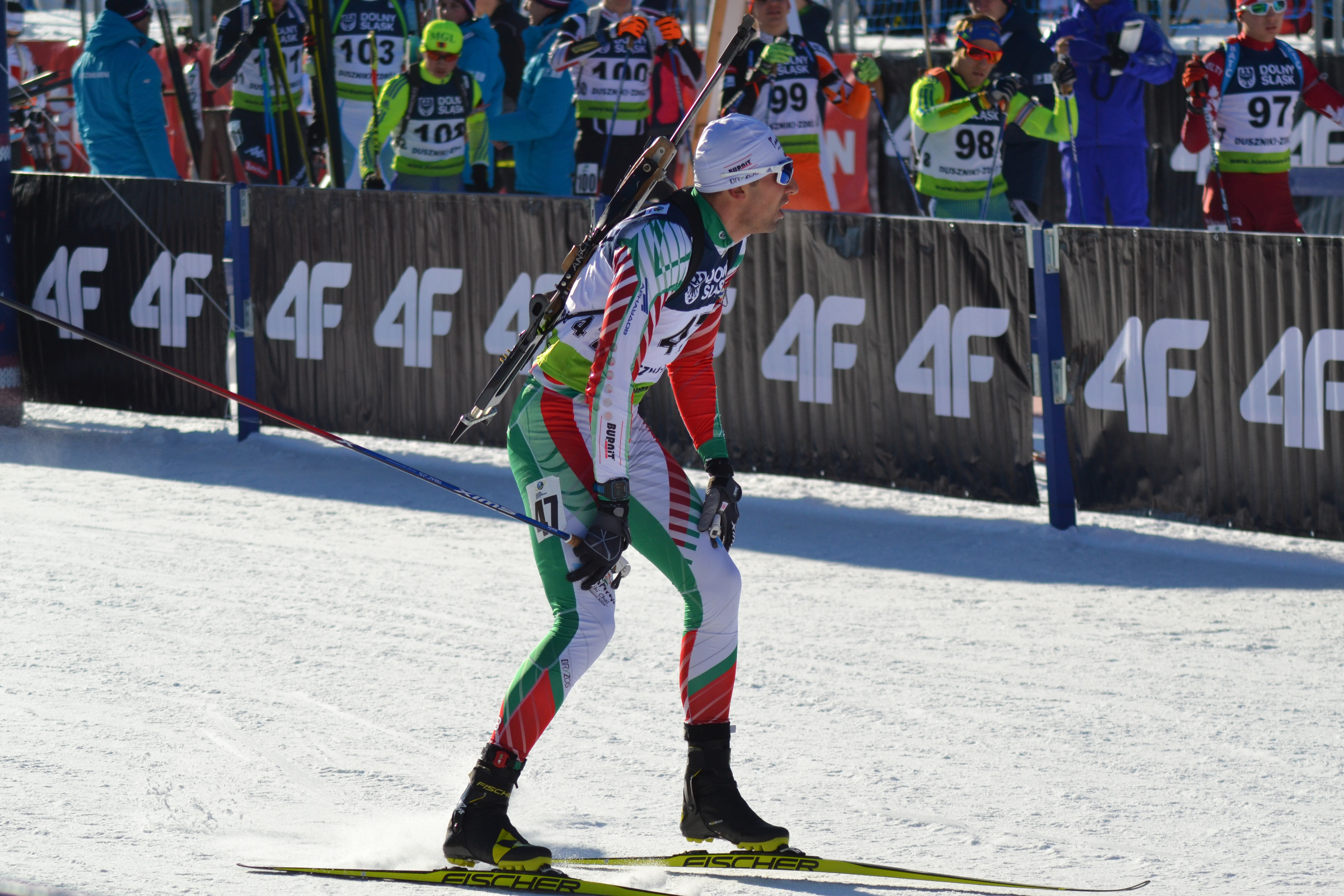 Open European Championships Biathlon 2017, Sprint Men's race, held on January 27th.